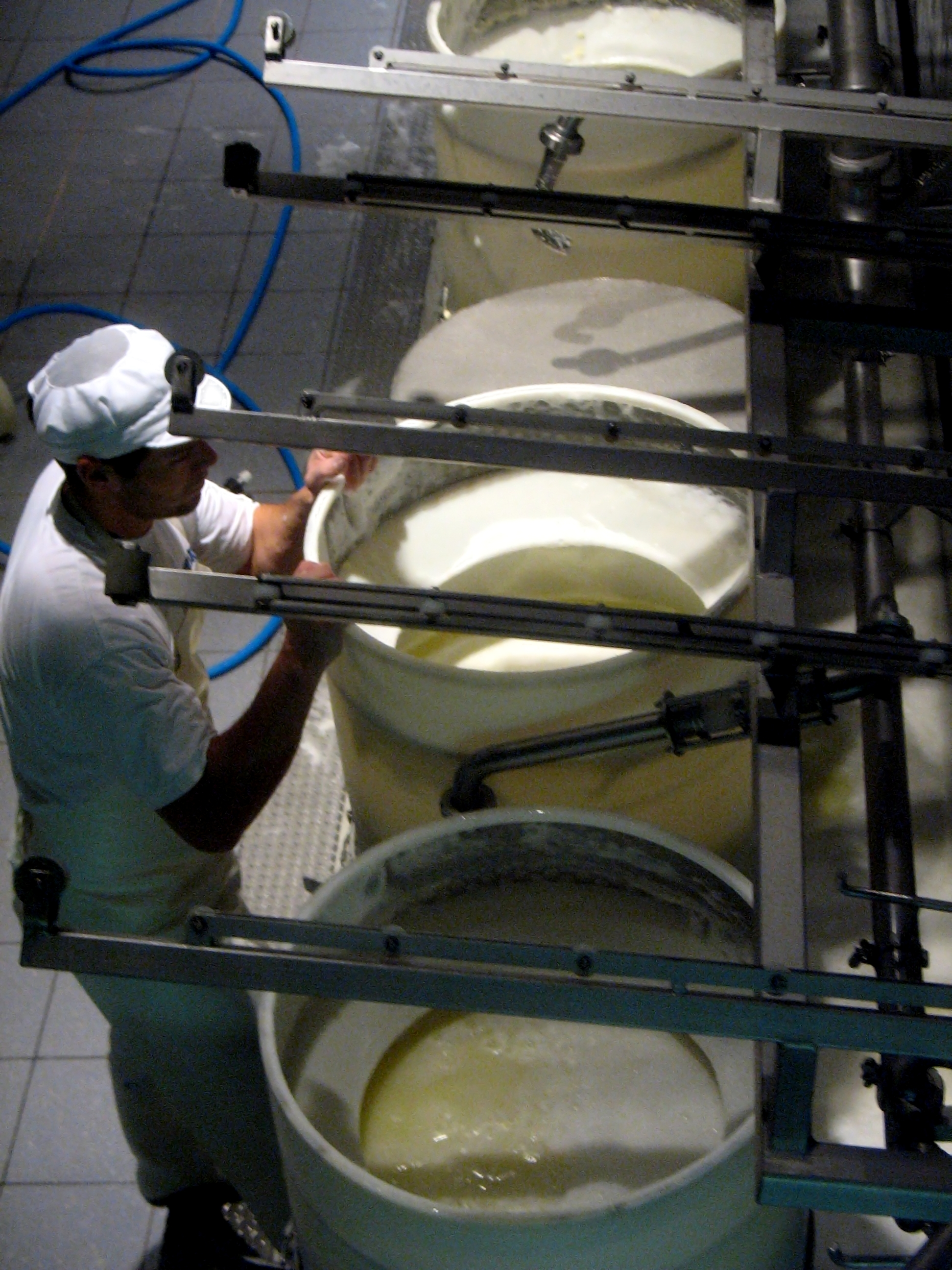 Production of Gruyère cheese at the cheesemaking factorie of Gruyères , Switzerland, Canton of Fribourg. This image was improved or created by the Wikigraphists of the Graphic Lab (fr). You can propose images to clean up, improve, create or translate as well.